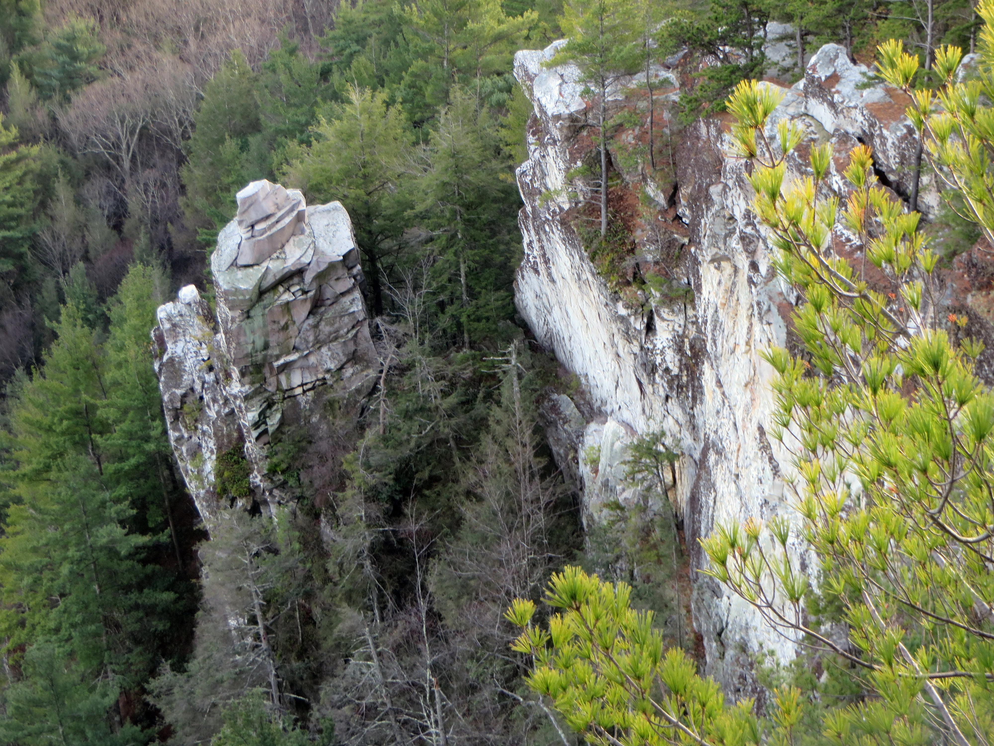 Devil's Pulpit, left, on Monument Mountain in the Berkshires, Massachusetts.